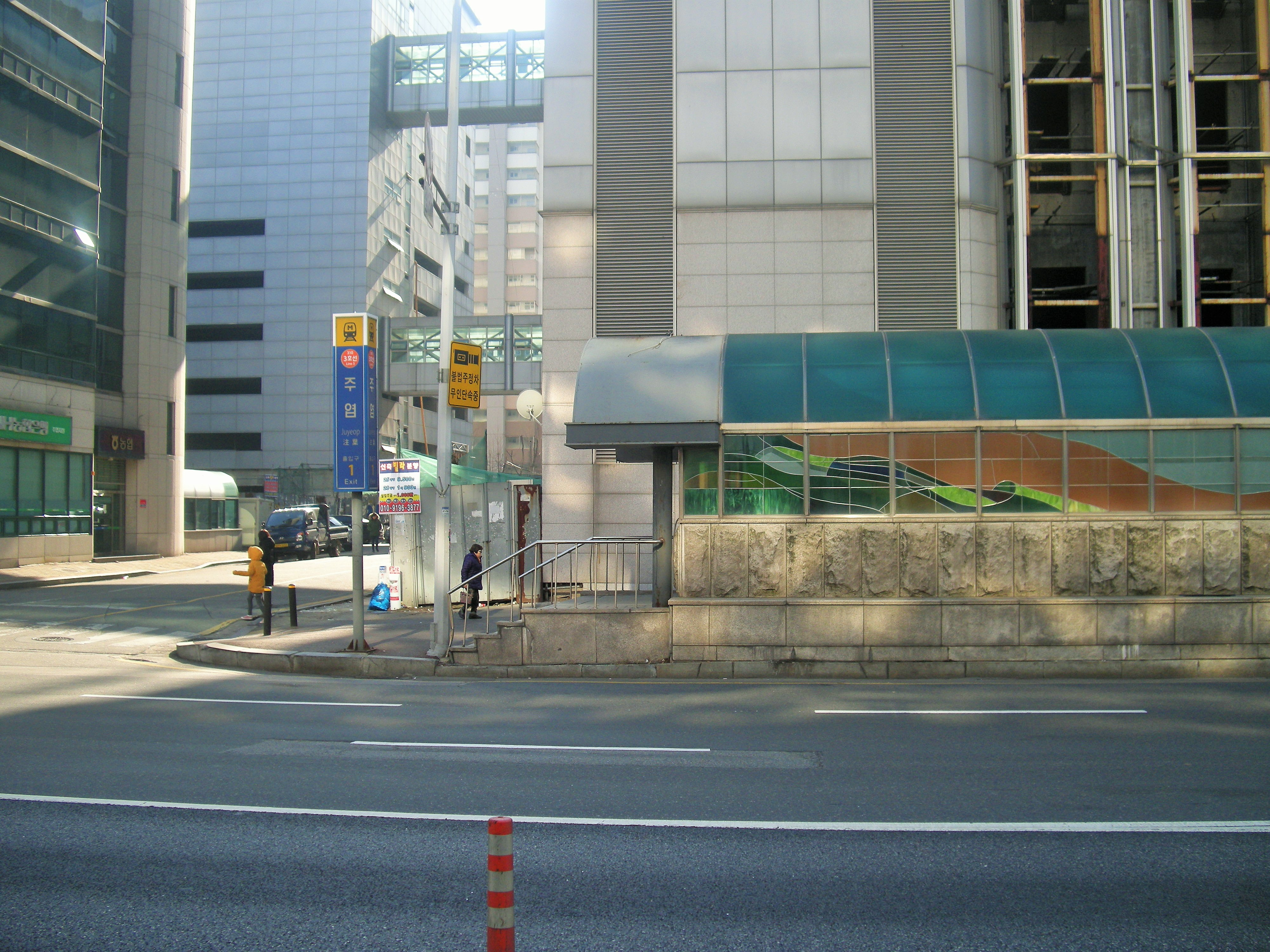 Exit No.1 of Juyeop Station, Ilsan Line